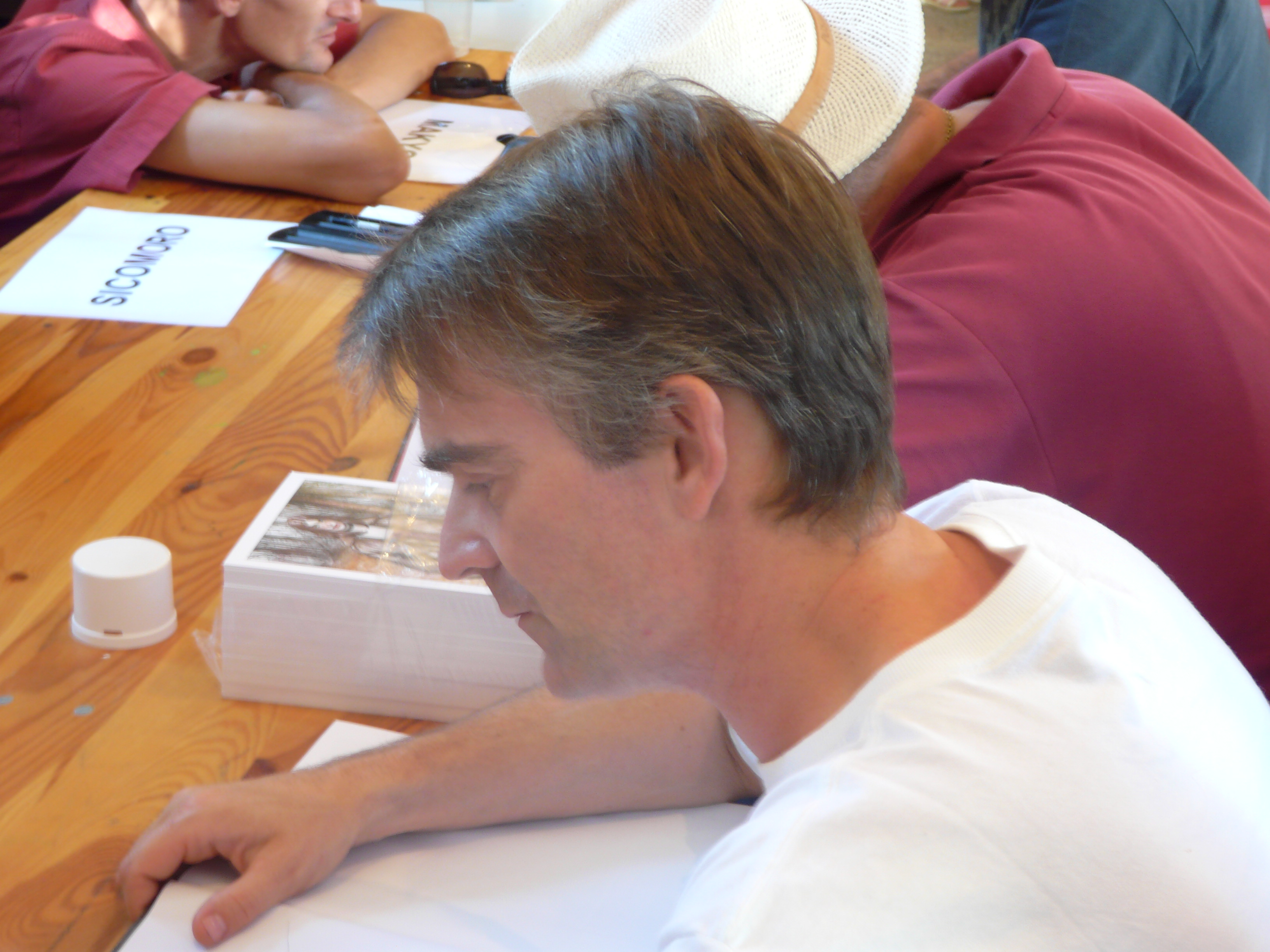 Photographs taken during the International Comic Festival of Sollies Ville, France